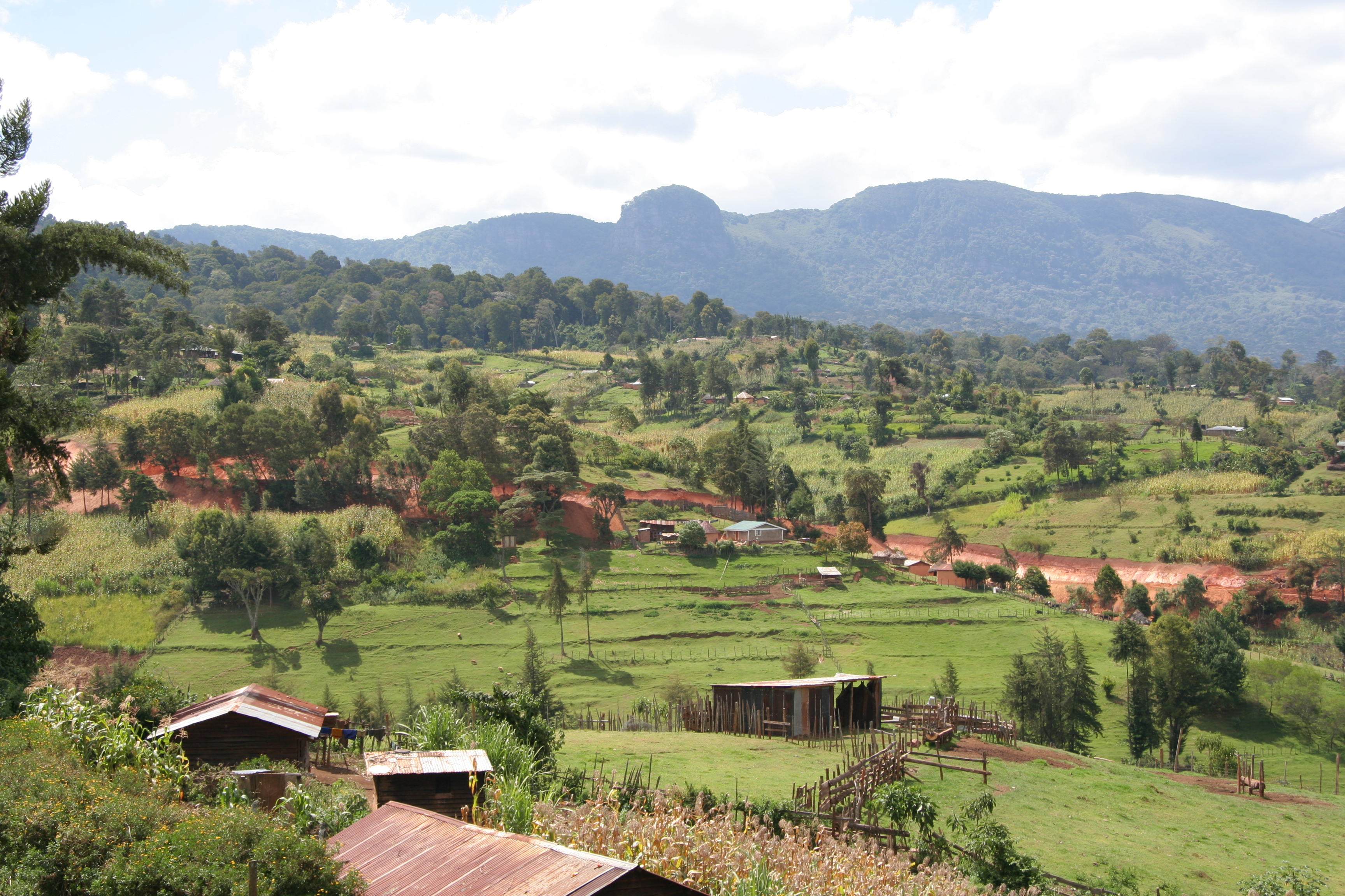 Surrounding hills of Kapsowar with Mt. Kipkinurr in background